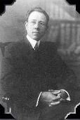 Frederick Sumner McKay (1874–1959)